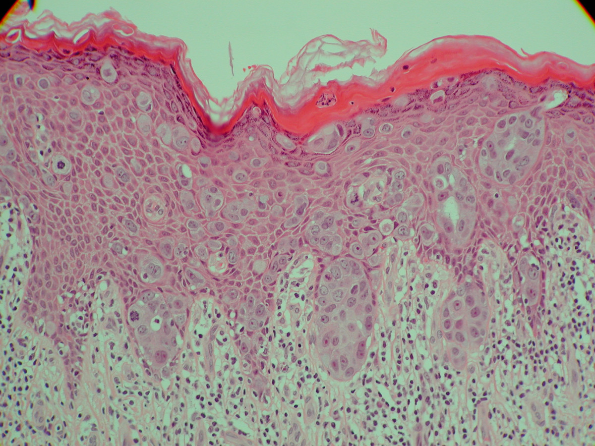 H&E stain of the resected specimen of paget's disease showing a clear margin.